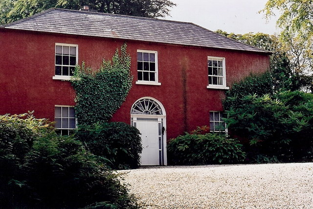 Glebe House - Home of artist Derek Hill Not one item has been moved since the death of Derek Hill, as it was his request that everything be left as he had arranged them. A tour of the home is very worhwhile & interesting, even though photos of the interior of the home are not allowed.